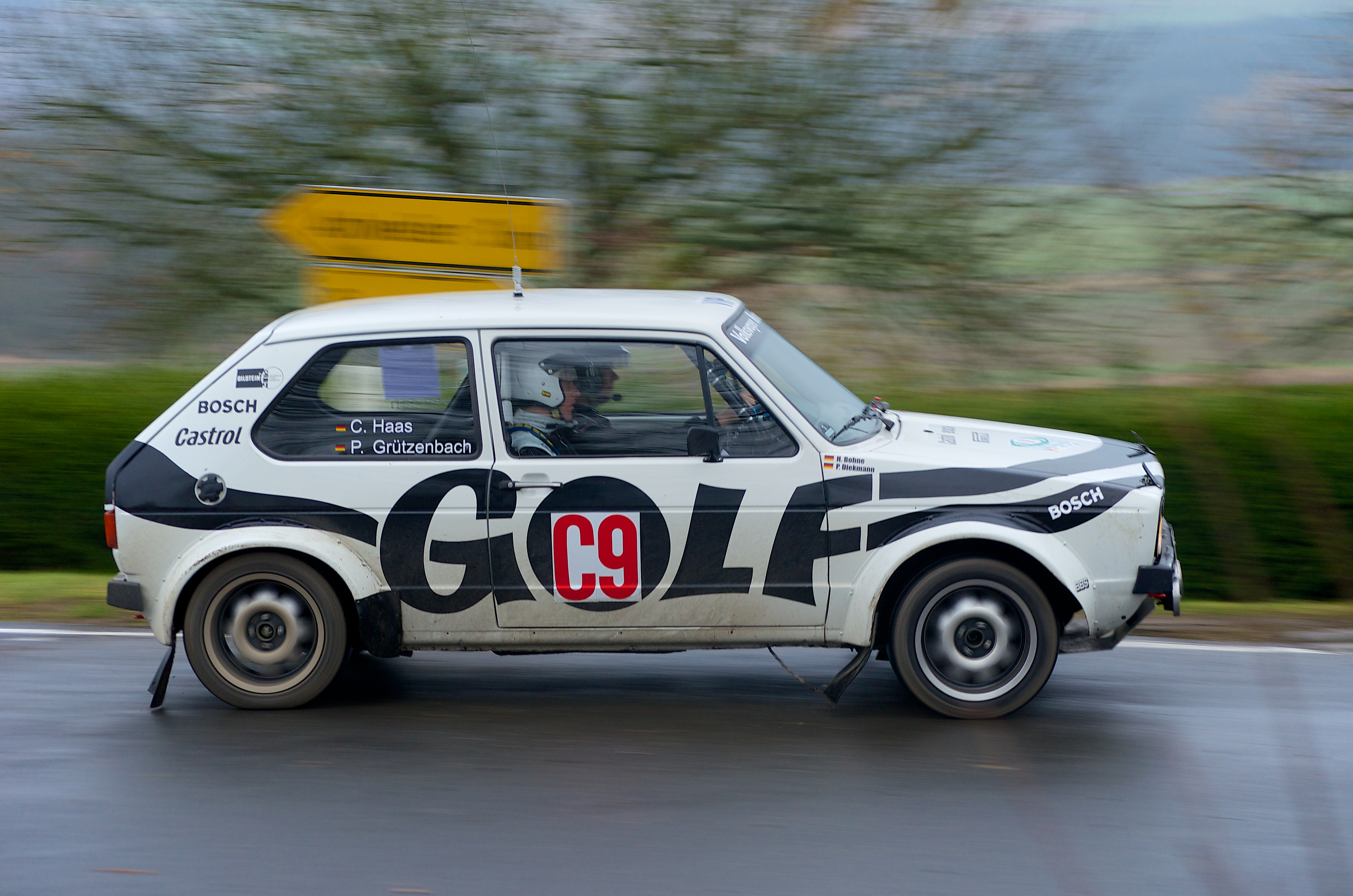 Advance Car in the course of the 2012 Rallye Köln-Ahrweiler, Volkswagen Golk GTI from 1979 driven by Christian Haas and co-driver Patrick Grützenbach